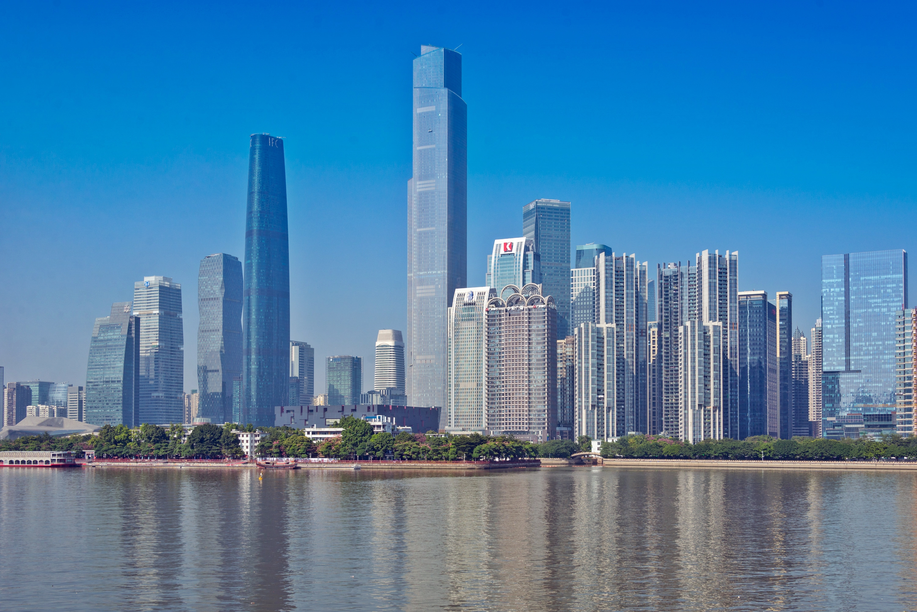 Guangzhou Twin Towers